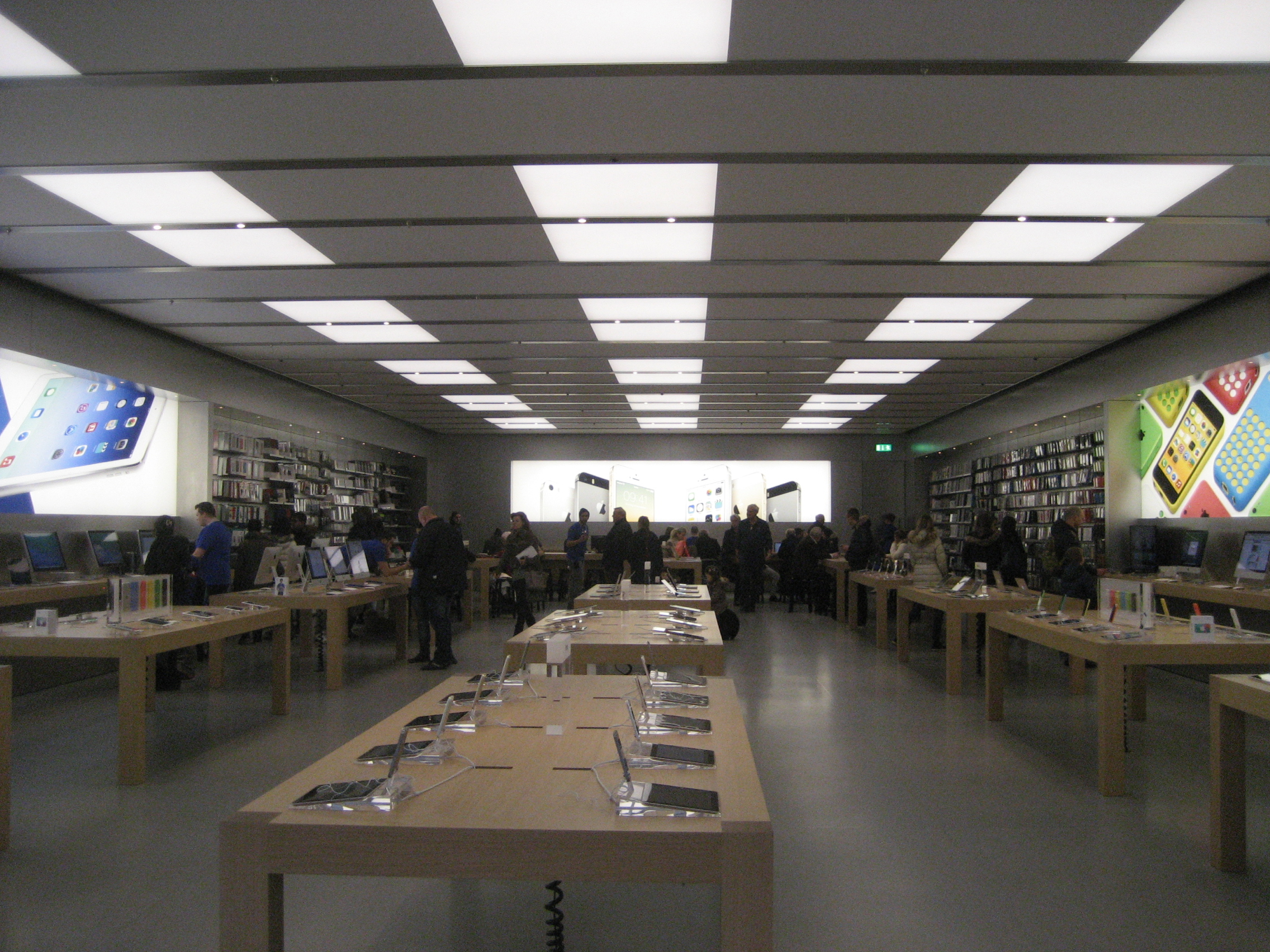 Apple Store in Haarlem (The Netherlands). 2nd Apple Store in the Netherlands.